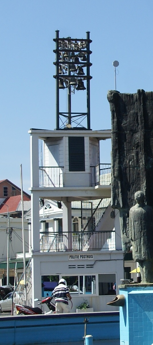 Carillon, Vaillantsplein, Paramaribo, Surinam.